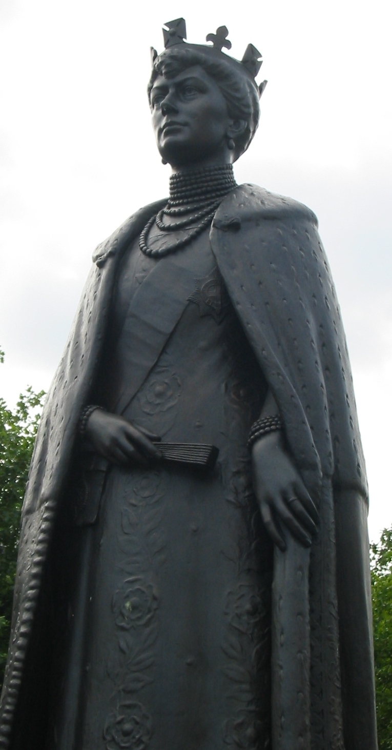 Liverpool